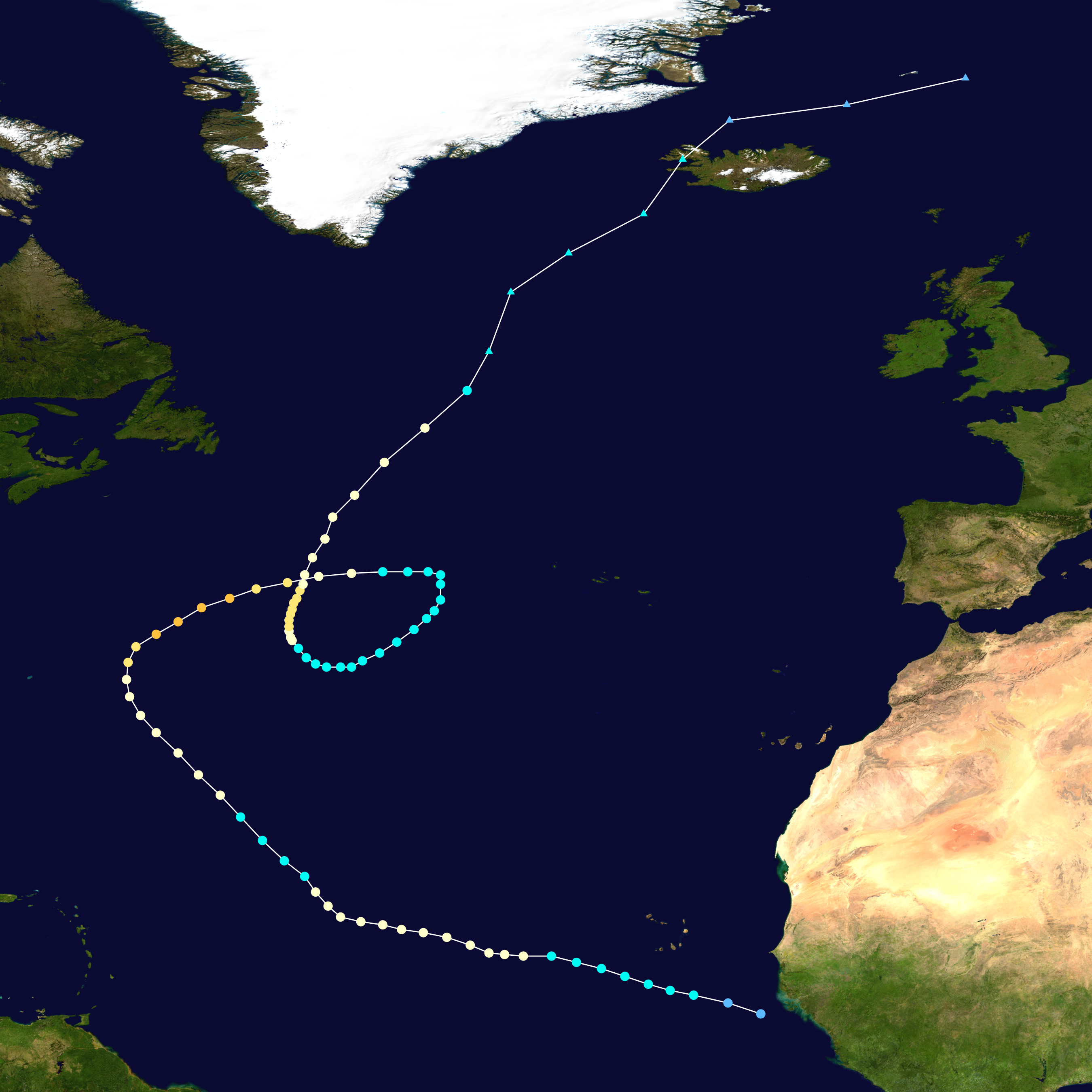 Track map of Hurricane Alberto of the 2000 Atlantic hurricane season. The points show the location of the storm at 6-hour intervals. The colour represents the storm's maximum sustained wind speeds as classified in the Saffir–Simpson scale (see below), and the shape of the data points represent the nature of the storm, according to the legend below. Saffir–Simpson scale Tropical depression≤38 mph≤62 km/h Category 3111–129 mph178–208 km/h Tropical storm39–73 mph63–118 km/h Category 4130–156 mph209–251 km/h Category 174–95 mph119–153 km/h Category 5≥157 mph≥252 km/h Category 296–110 mph154–177 km/h Unknown Storm type Tropical cyclone Subtropical cyclone Extratropical cyclone / Remnant low / Tropical disturbance